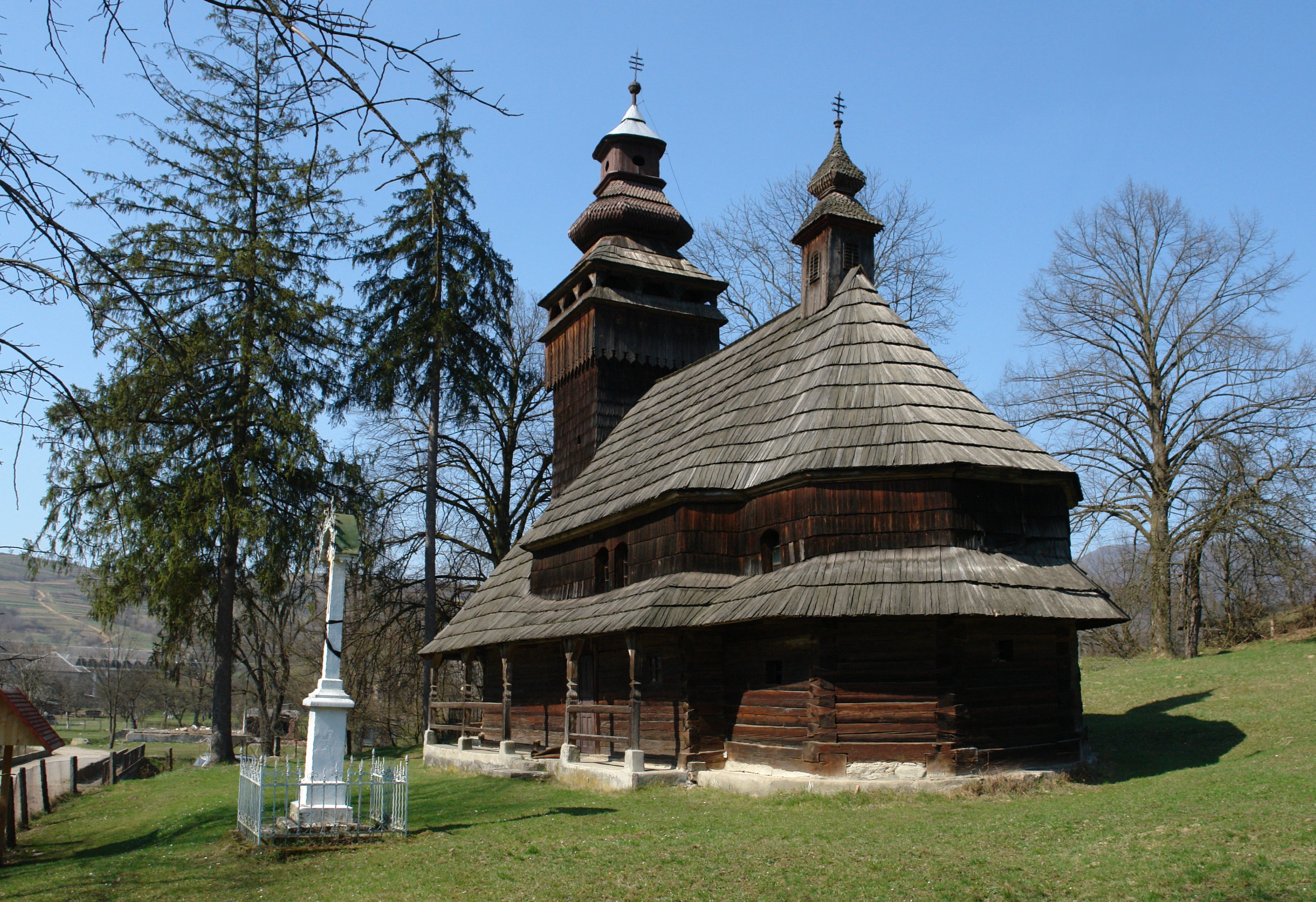 Wooden church in Chornogolova